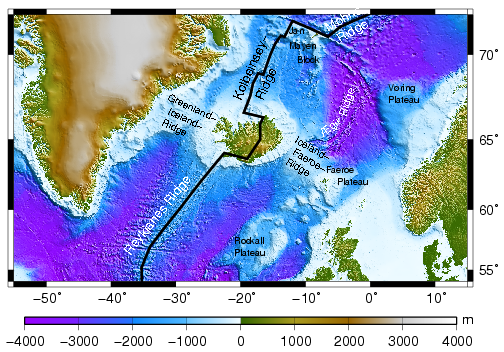 Topography/bathymetry of the north Atlantic around Iceland, based on the GTOPO30 dataset. Source: created by the author with GMT (25/10/2005).